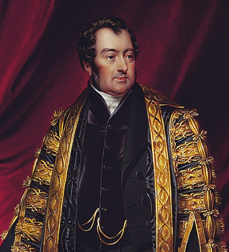 John Charles Spencer, Viscount Althorp, 3rd Earl Spencer (1782-1845), as Chancellor of the Exchequer.